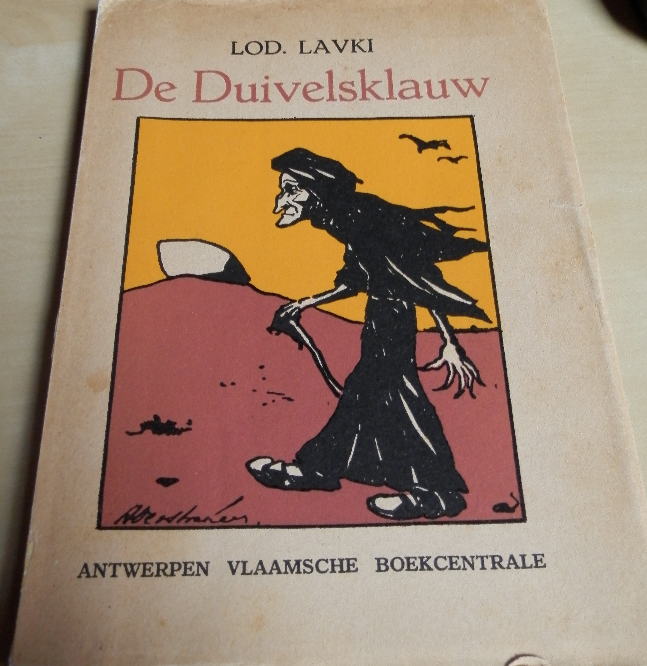 Langerlo